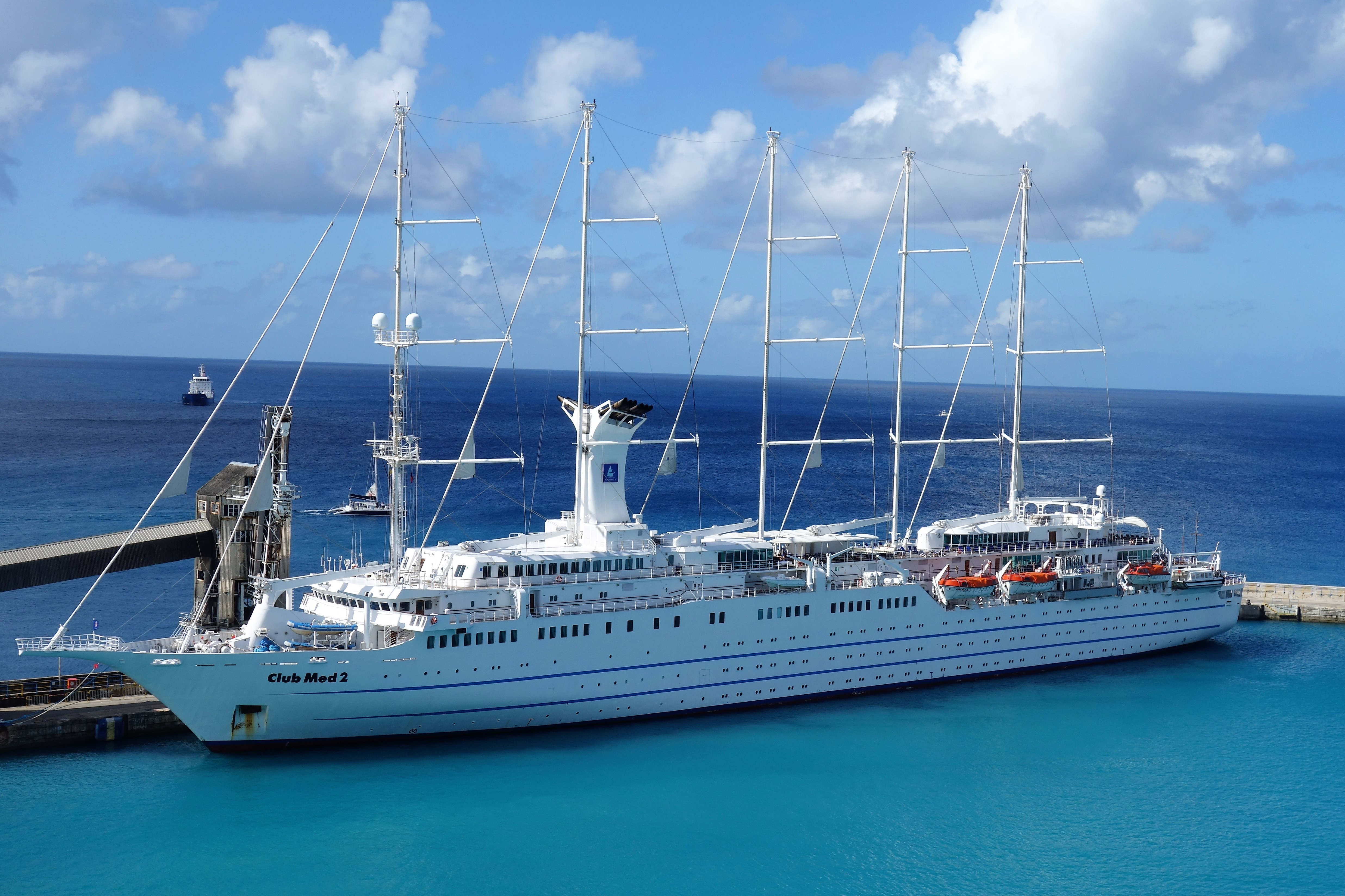 Cruise ship Club Med 2 moored at Bridgetown Harbour Cruise Pier